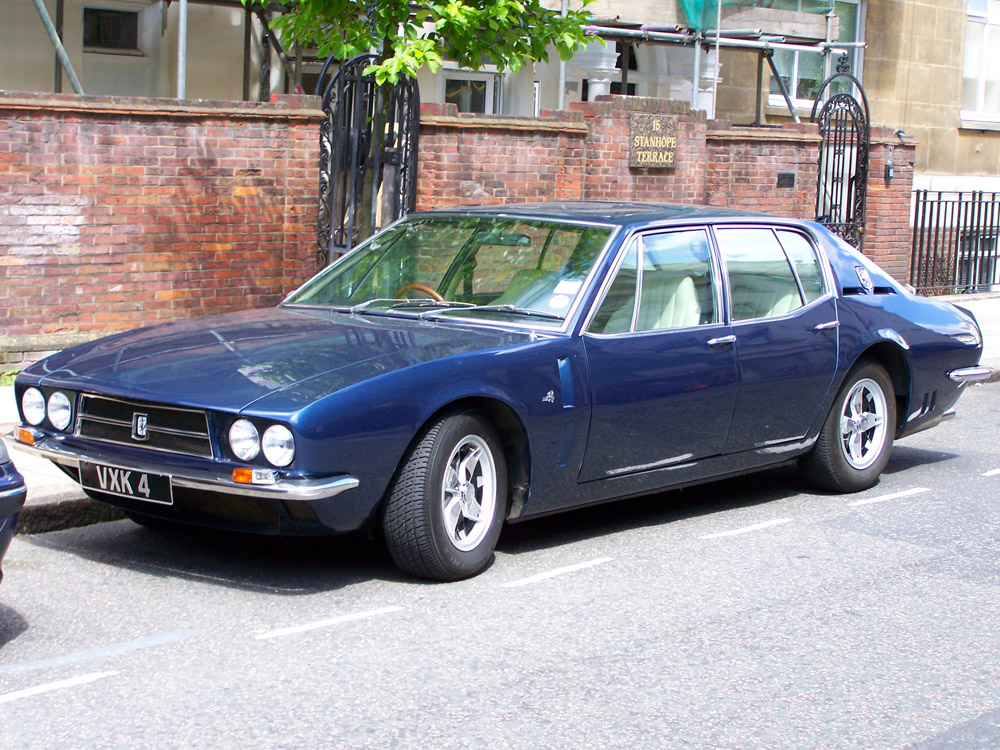 Blue Iso Fidia on London street. One of twelve produced with right-hand steering.